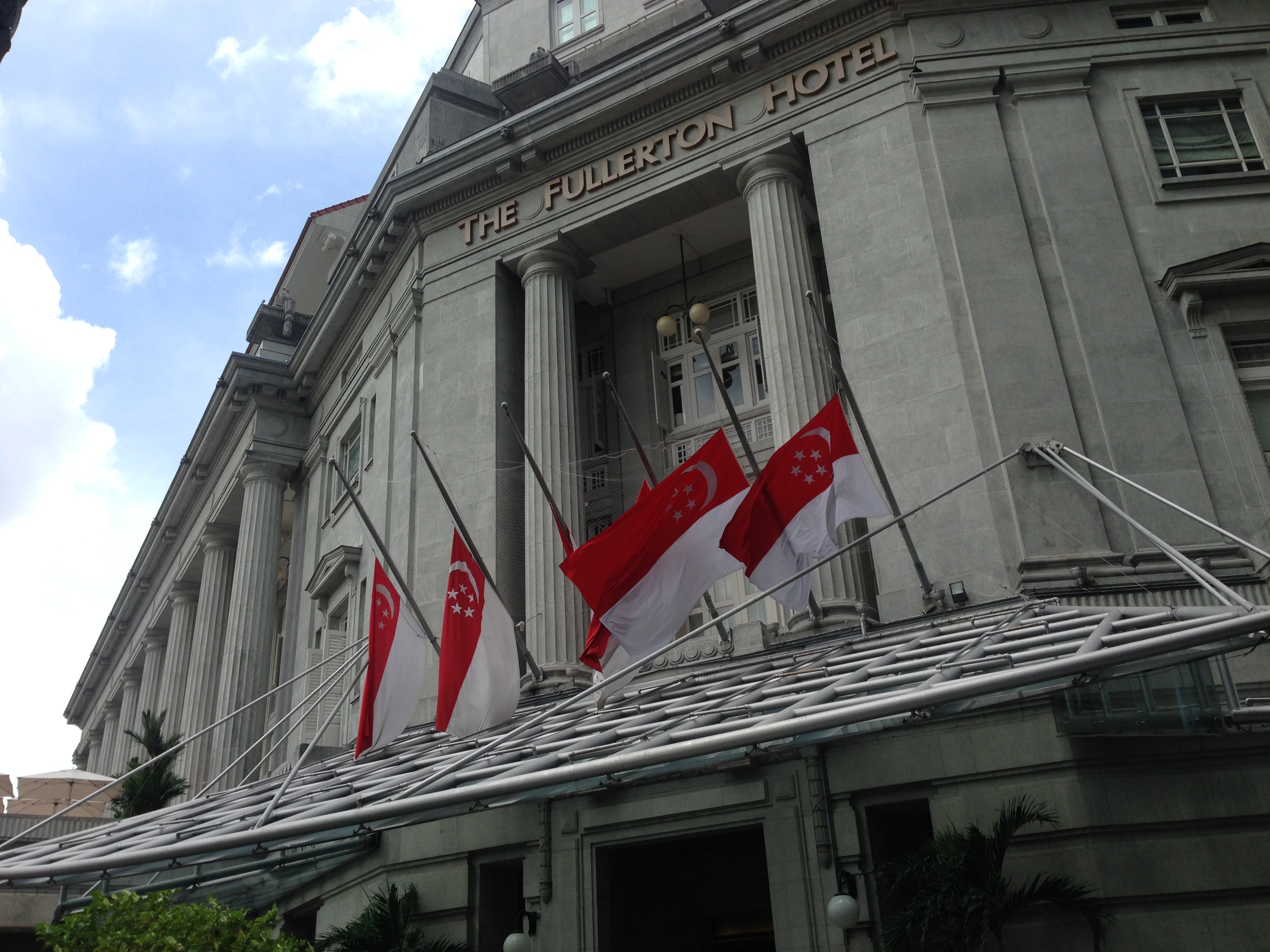 National Flags of Singapore at half-staff to mark the death of the late former Prime Minister of Singapore, Lee Kuan Yew, at The Fullerton Hotel Singapore.